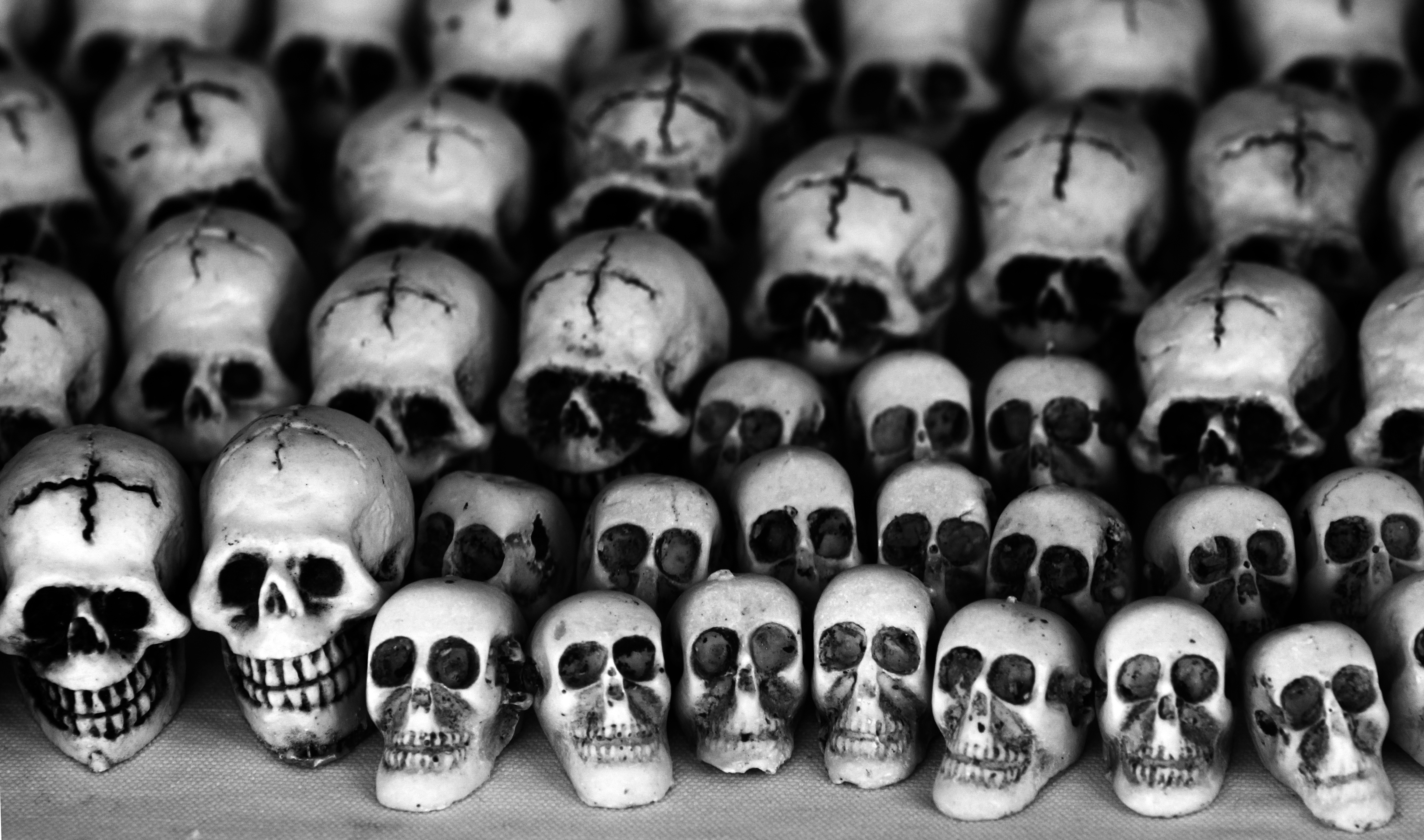 Calaveras - skulls typical of Day of the Dead celebrations in Mexico. Photograph taken Leon, Guanajuato, Mexico